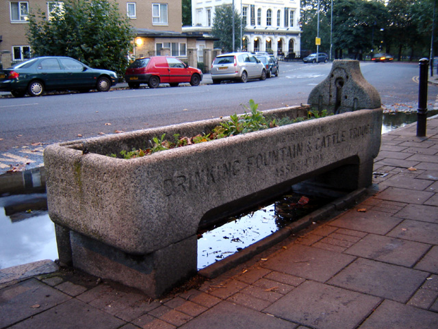 Cattle trough and drinking fountain, junction of Lauriston Road and Morpeth Road, Hackney, London. 20 October 2005. Photographer: Fin Fahey.